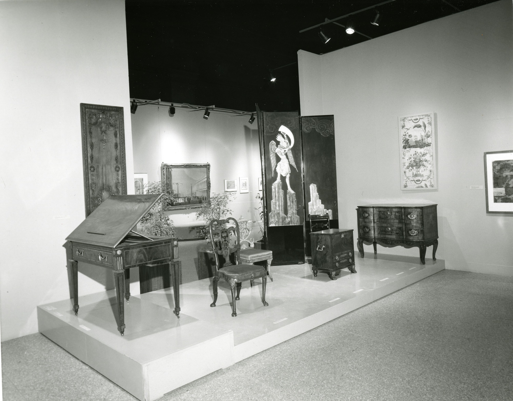 A display of furniture and art work at the National Collection of Fine Arts, now the Smithsonian American Art Museum, exhibition "Treasures from the Cooper Union" at the National Museum of Natural History, July 13 - September 24, 1967. After the Smithsonian Institution took over the Cooper Union Museum in New York City on July 1, 1968, it was renamed the Cooper-Hewitt, National Design Museum. 1967.